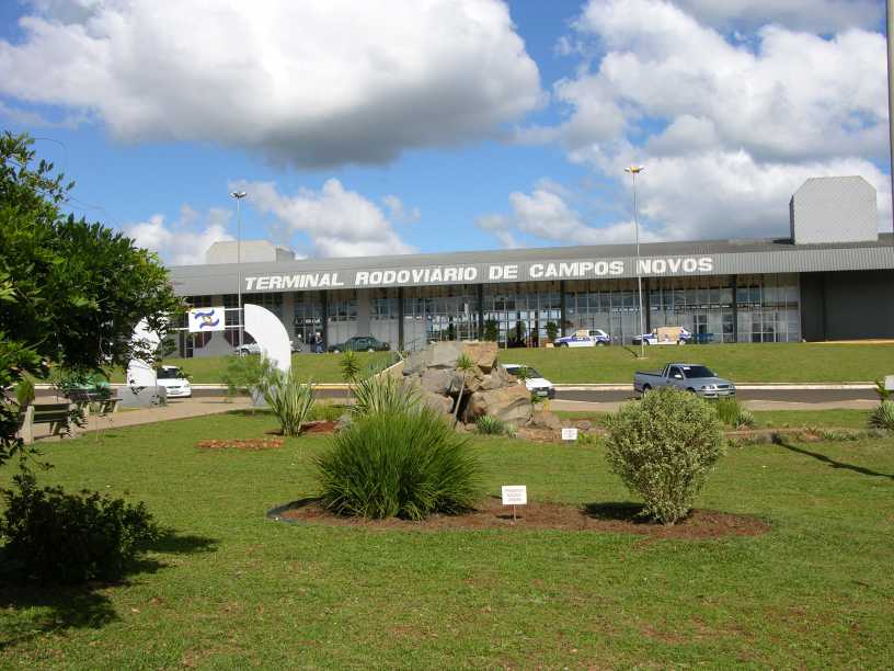 Rodoviaria de Campos Novos